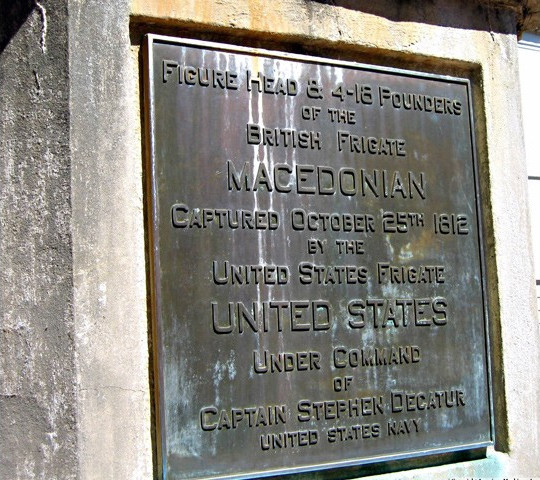 Plaque associated with the Macedonian Monument on the campus of the US Naval Academy, Annapolis, MD.